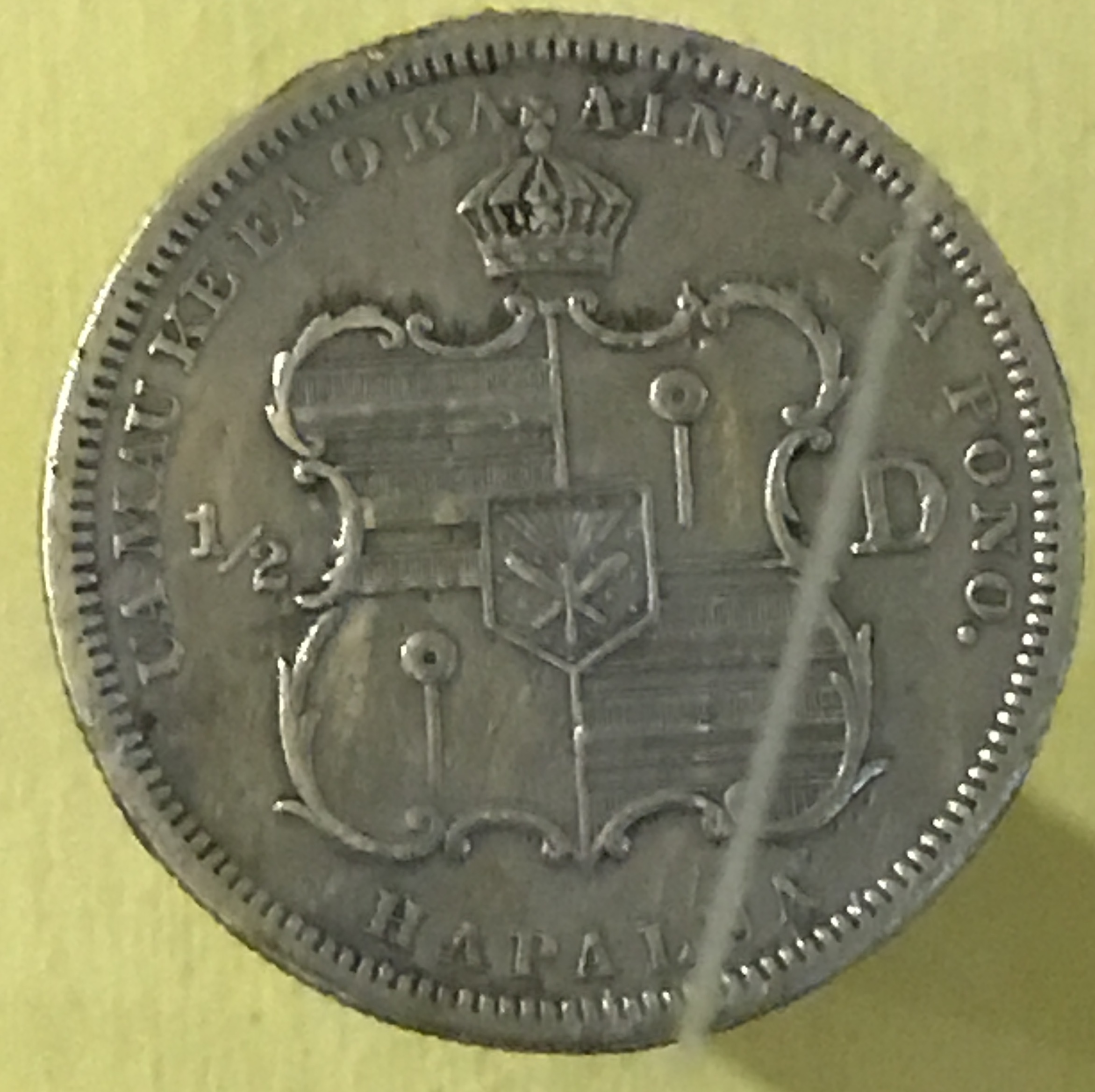 Hawaiian half dollar coin (1883) used as the seal of the Kingdom of Hawaii's consul in Fiji. On exhibit in Museum of Fiji